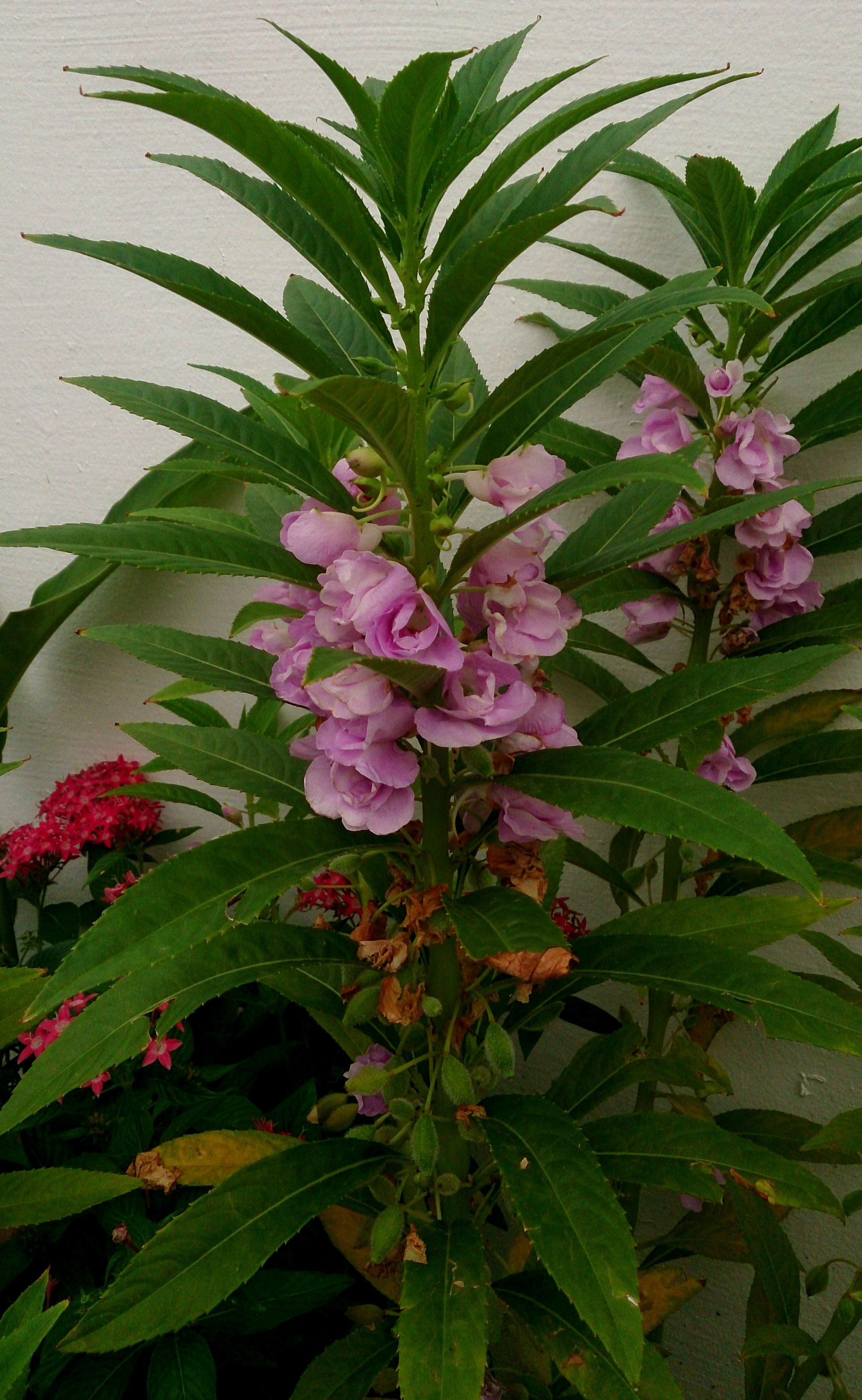 Impatiens balsamina. Common names: Balsam. Touch-Me-Not. 凤仙花 (Chinese). Origin: India.